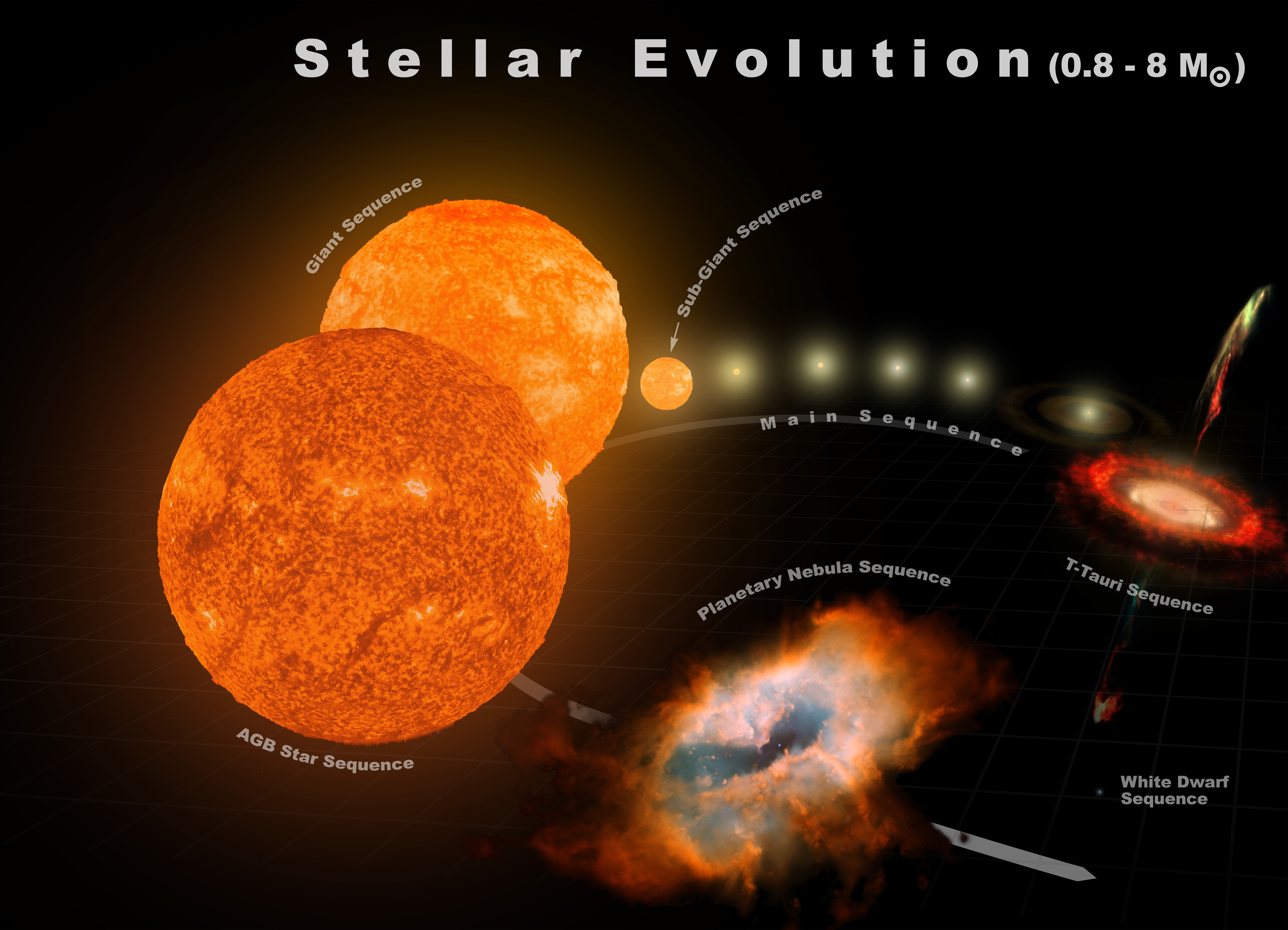 Tipical stellar evolution for 0.8-8 M☉